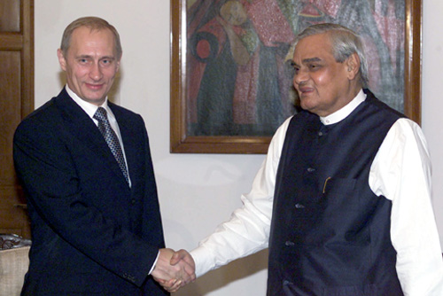 HYDERABAD PALACE, DELHI. With Indian Prime Minister Atal Bihari Vajpayee.